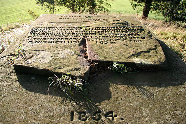 The inscribed stone on Haughhead Kip This stone commemorates a dispute over the farming rights of the surrounding land long ago. The stone was repaired and restored in 1854 by Lady John Scott. The inscription reads:- REPAIRED AND RESTORED BY THE LADY JOHN SCOTT HERE HOBY HALL BOLD MAINTAIND HIS RIGHT GAINST REEF PLAIN FORCE ARMED W LAWLESS MIGHT FOR TUENTY PLEUGHS HARNESD IN ALL THEIR GEAR COULD NOT THIS VALIEN NOBL HEART MAK FEAR BUT W HIS SWORD HE CUT THE FORMOSTS SOAM IN TWO HENCE DROVE BOTH PLEUGHS AND PLEUGH MEN HOME 1620 1854